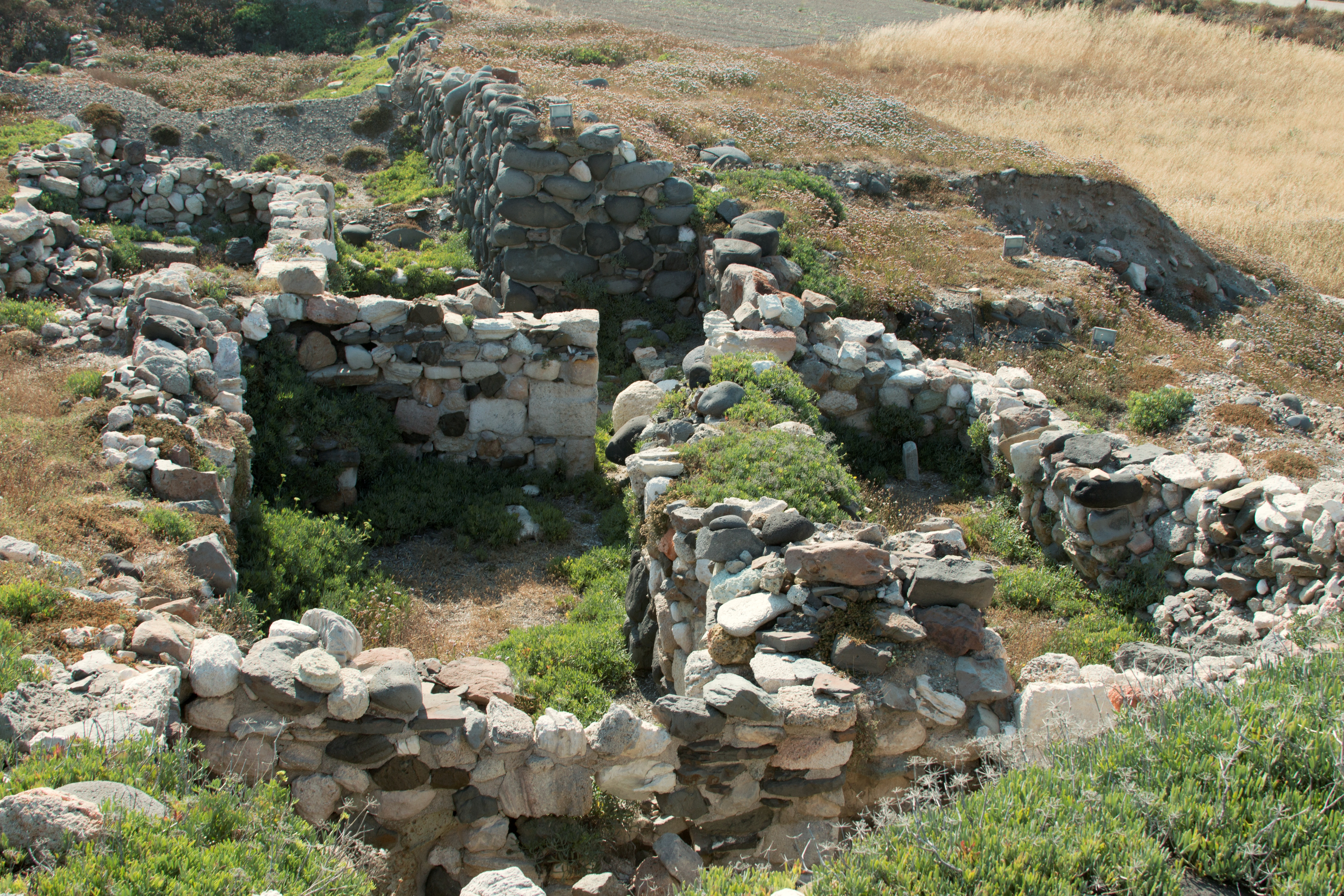 Phylakopi, the Sanctuary. Latete Bronze Age. View from the west.